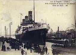 14,783 GRT passenger liner and packet boat Lutetia, built in 1913 by Chantiers de l'Atlantique of St Nazaire for Compagnie Sud Atlantique. She became a troop ship in 1914, an armed merchant cruiser in 1915 and later in the First World War was refitted as a hospital ship and then converted back into a troop ship. She was refitted in 1919–20 and returned to civilian service. She was laid up in 1938 and then scrapped.